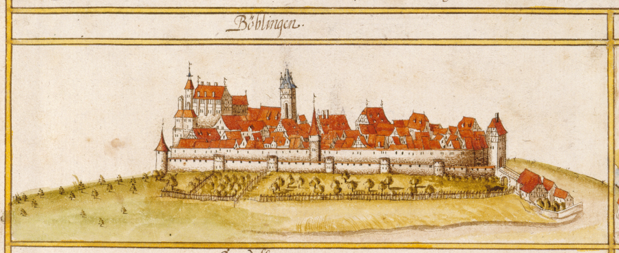 View of Böblingen from the forest register books created by Andreas Kieser